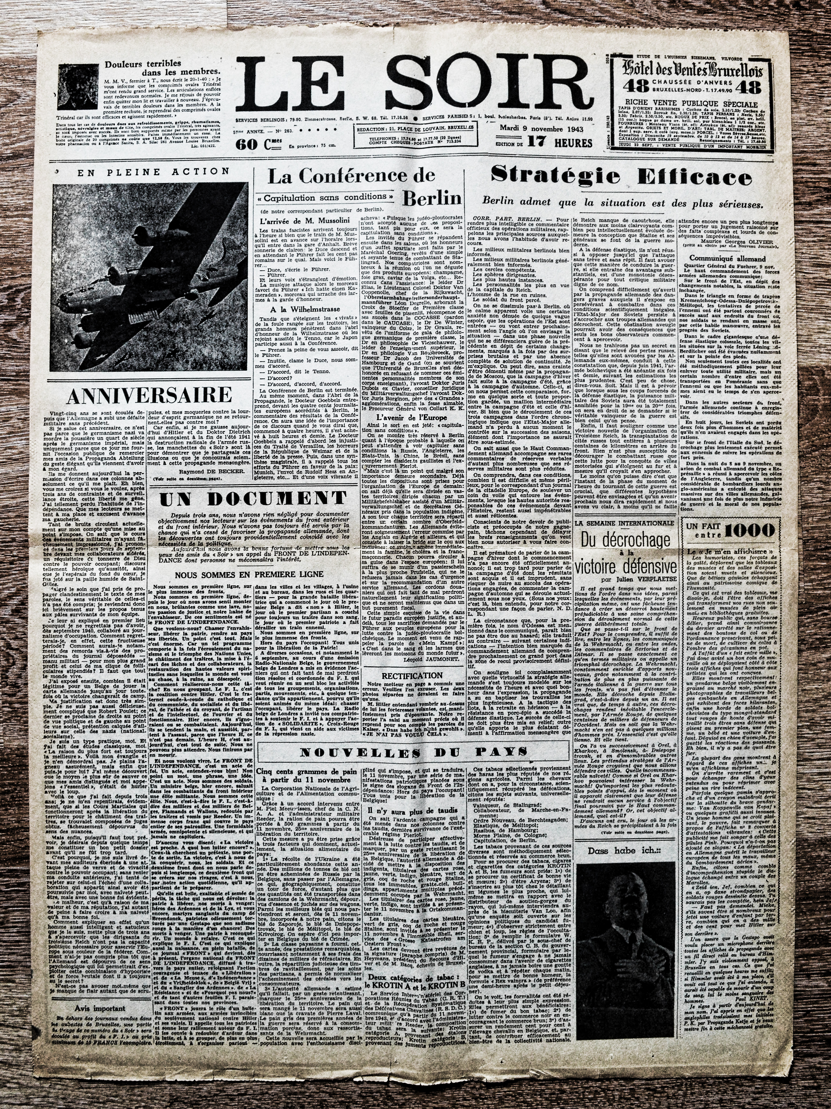 Frontpage of the "Faux Soir", spoof issue of the newspaper Le Soir published by the Front de l'Indépendance, a faction in the Belgian Resistance, on 9 November 1943